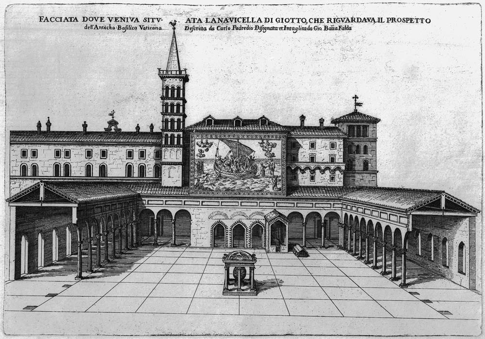 Engraving of the portico of Old St. Peter's Basilica featuring Giotto's Navicella